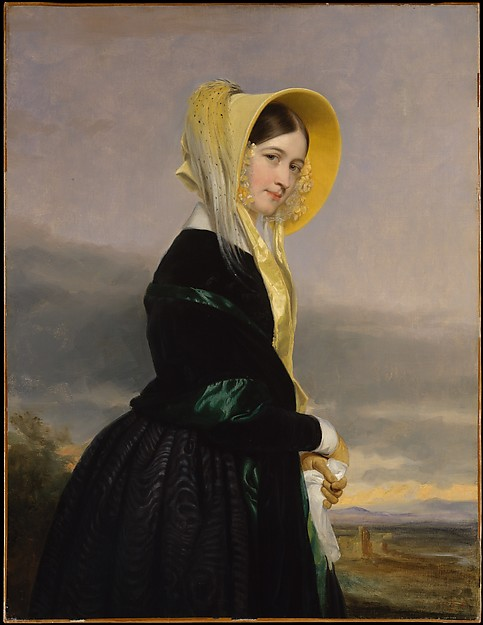 Euphemia White Van Rensselaer Artist:George P. A. Healy (1813–1894) Date:1842 Medium:Oil on canvas Dimensions:45 3/4 x 35 1/4 in. (115.1 x 89.2 cm) Classification:Paintings Credit Line:Bequest of Cornelia Cruger, 1923